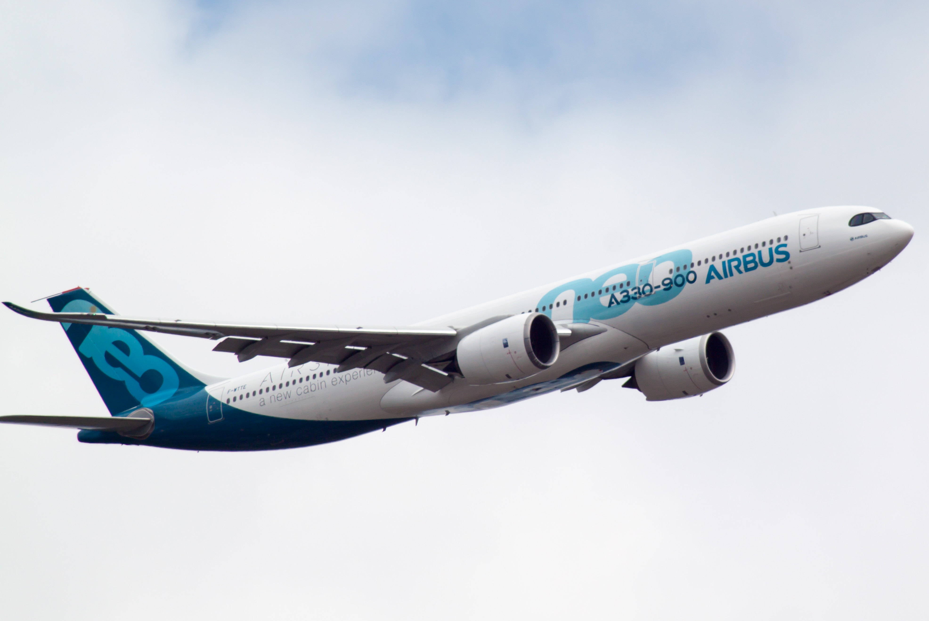 Farnborough Airshow 2018.